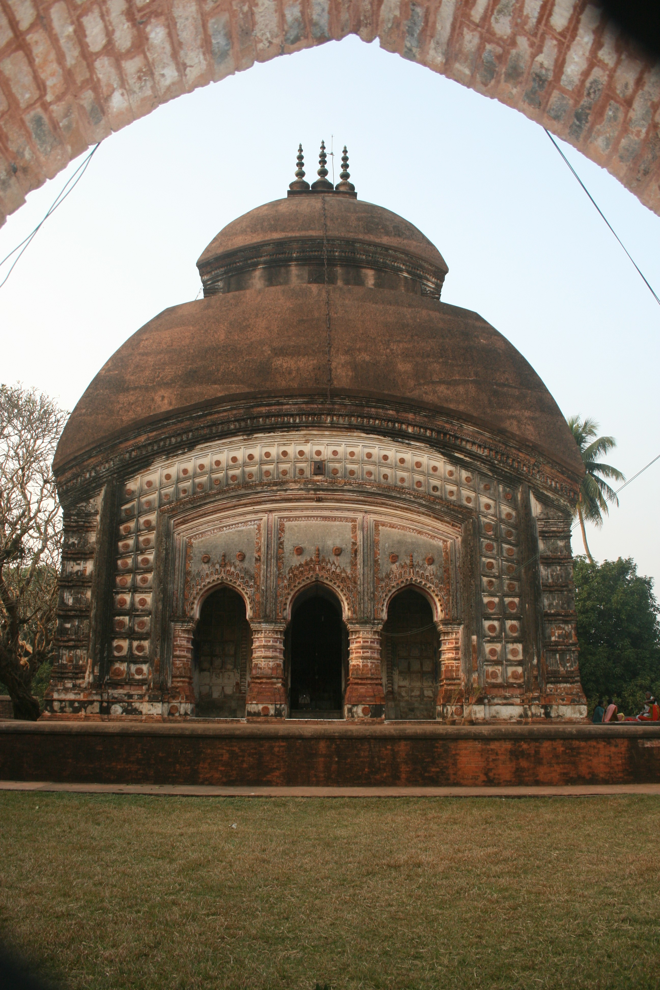 Sri Brindabanchandra Temple of Guptipara , Dt.-hooghly